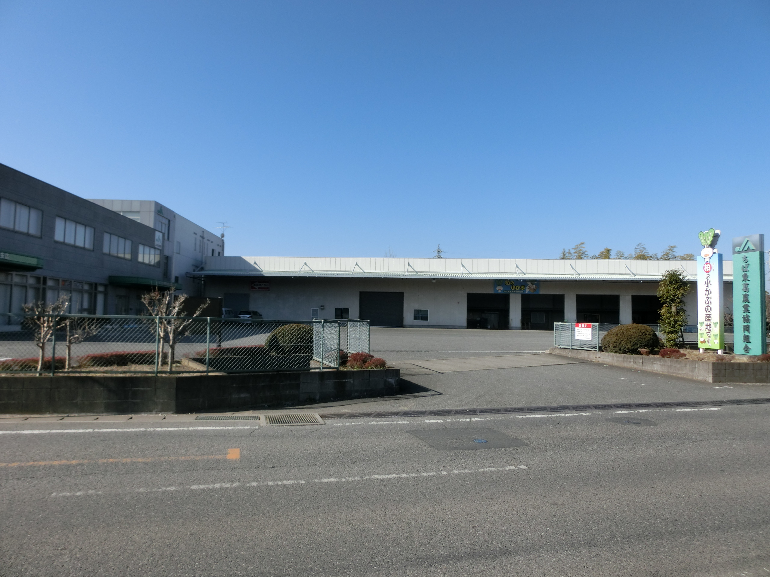 JA Chiba-Tokatsu Headquarters